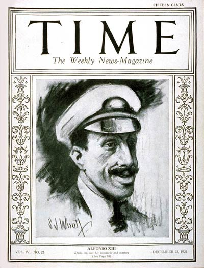 Alfonso XIII of Spain on Time magazine cover, 1924.